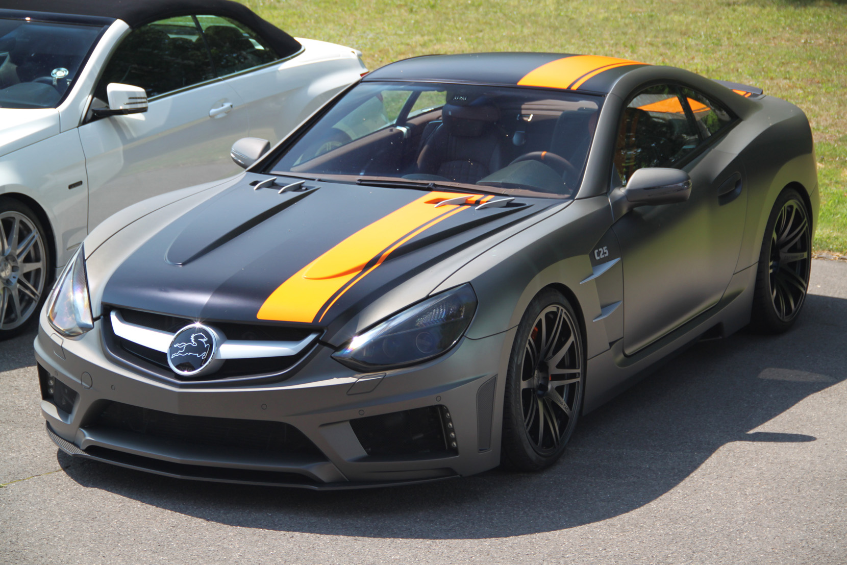 Carlsson C25 No. 1 at Gut Wiesenhof